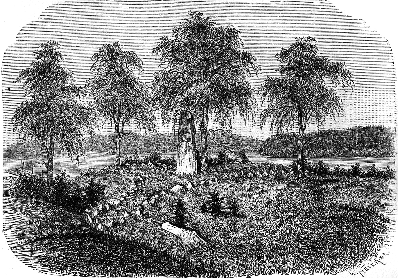 Engraving depicting a "treudd" in Lyngsta (RAÄ-nr Sorunda 160:1), Sorunda Parish, Nynäshamn Municipality, Sotholm Hundred, Stockholm County, Province of Södermanland, Sweden. The "treudd" is a starformed, three-armed flat cairn with concave sides. It dates to the Iron Age. This "treudd" is situated in the middle of an Iron Age gravefield. According to FMIS its concave sides have a length of circa 24 m each. This "treudd" has an erected stone in the middle. According to FMIS the stone is 1.5 m high. The lake in the background ought to be Västra Styran. The Picture 407 at Page 351 in the book Sveriges hednatid (1877) by Oskar Montelius is here scanned by Achird in the year 2010.